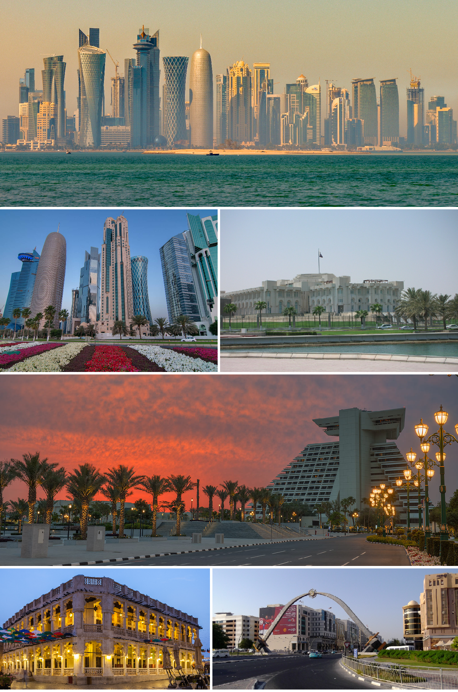 A city montage of Doha, Qatar.